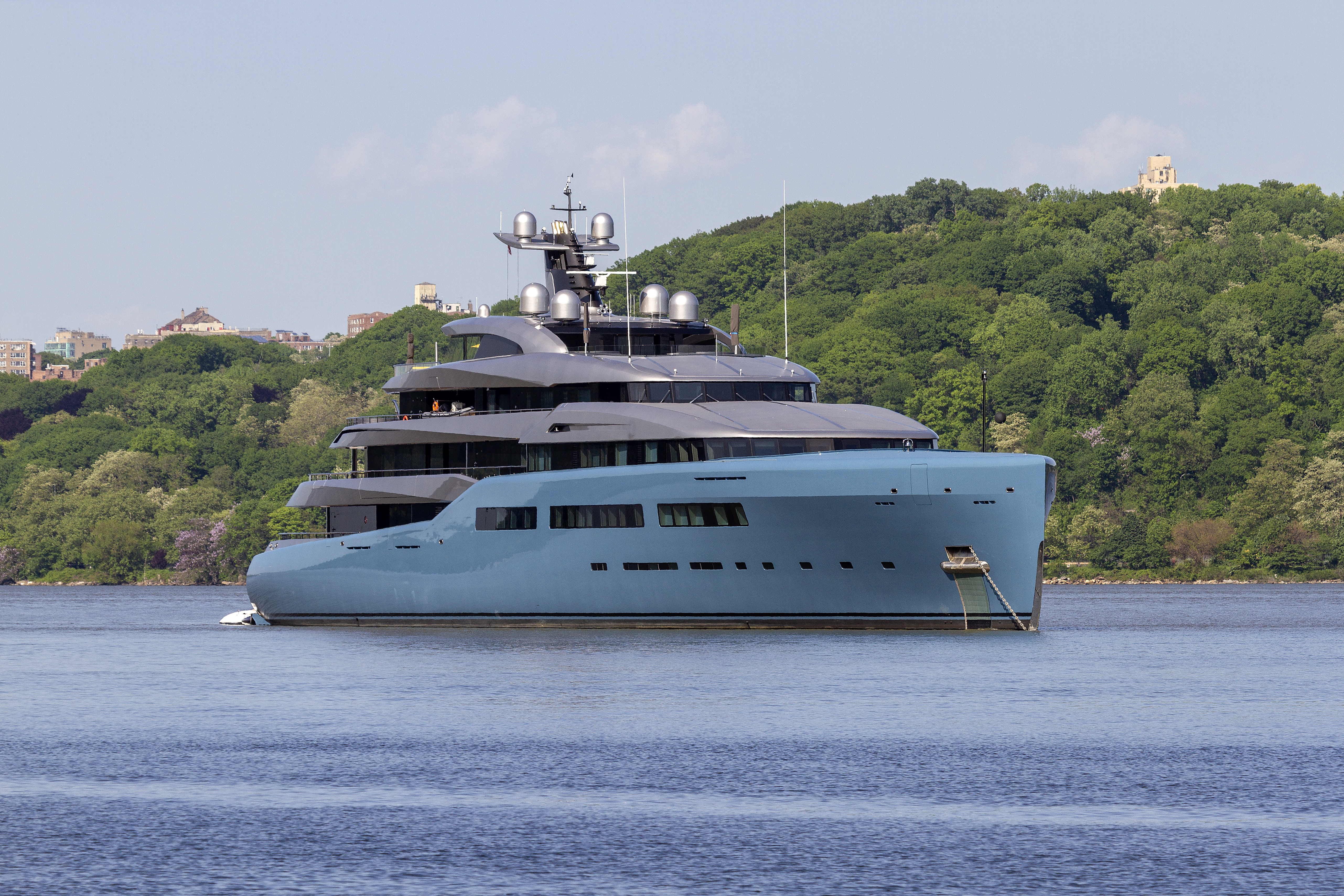 Yacht Aviva on the Hudson River above the George Washington Bridge, New York